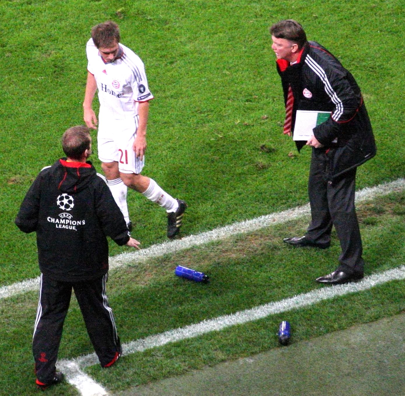 Philipp Lahm & Louis van Gaal